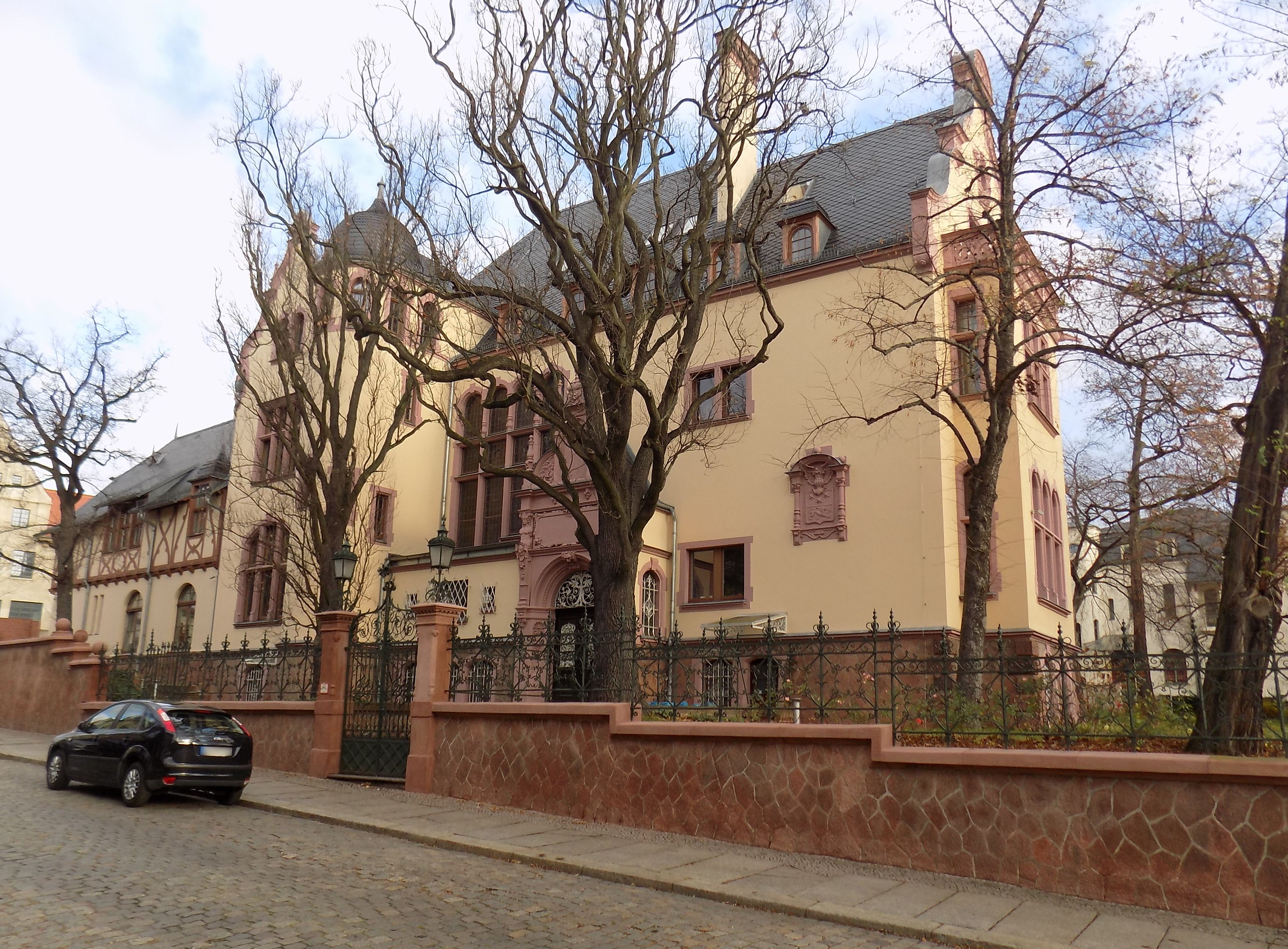 Villa Riedel, No. 36, Advokatenweg in Halle/Saale (Saxony-Anhalt)